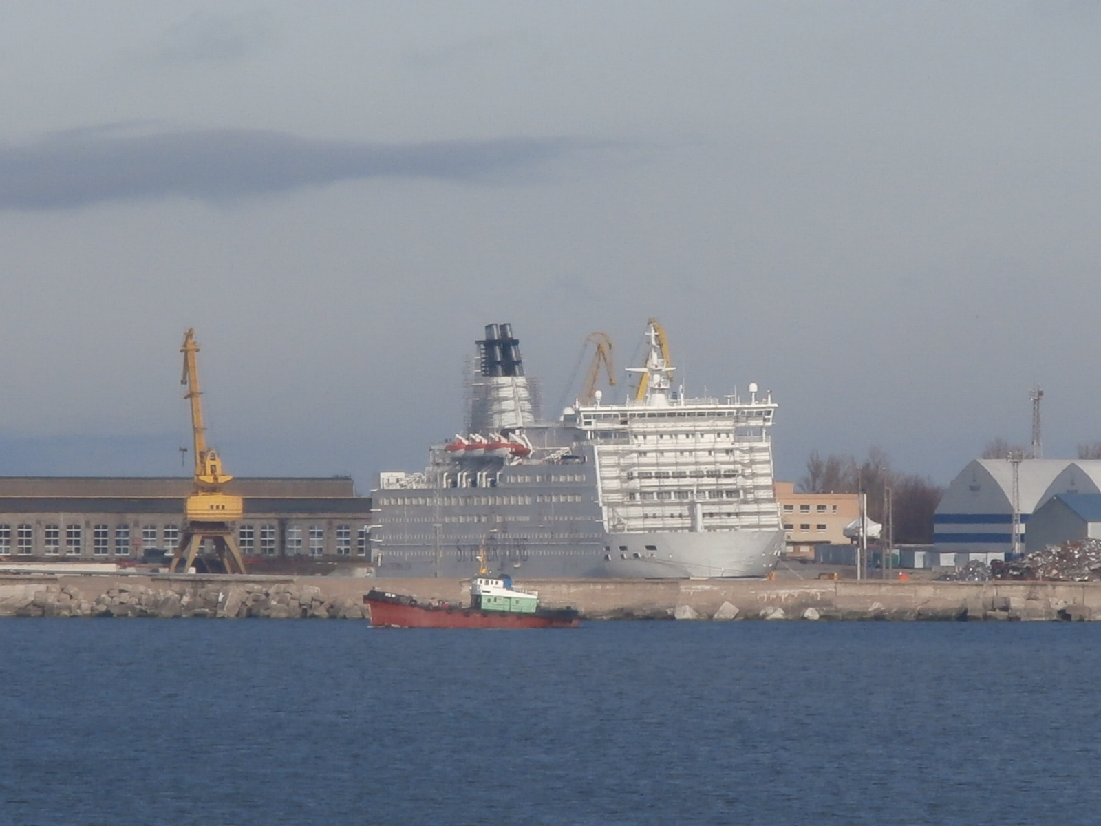 Vigri in Kopli Bay, Tallinn 12 March 2017 (SPL Princess Anastasia at quay 6-7 in Port of Vene Balti)